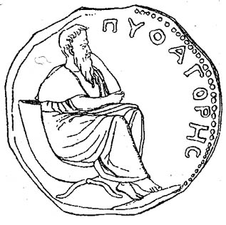 Pythagoras on a coin